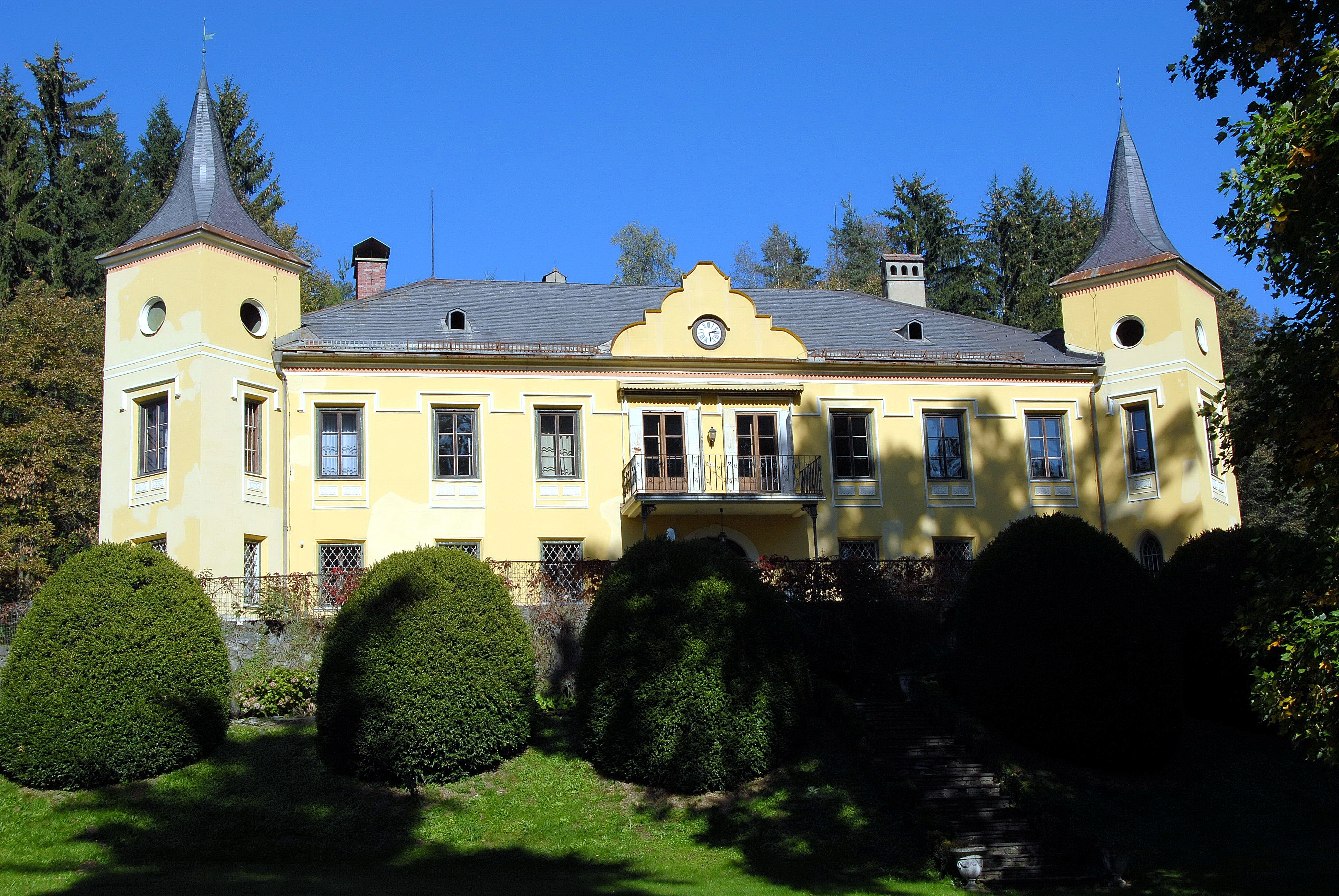 Castle Pichlern on Josef-Sablatnig-Strasse #269, Welzenegg, 10th district «Sankt Peter», municipality Klagenfurt, Carinthia, Austria, EU